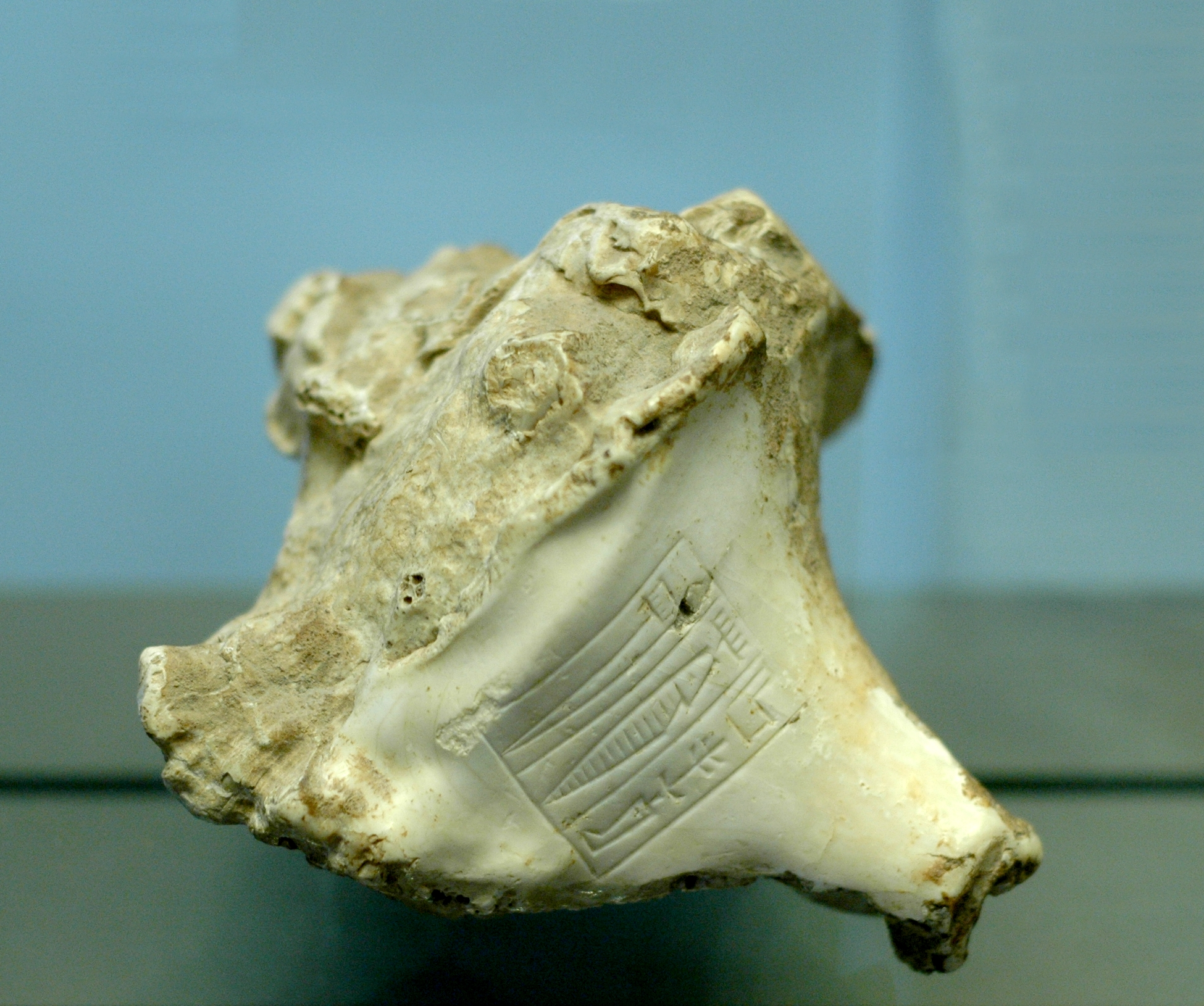 Murex (mollusc of the muricidae family) bearing the name of Rimush, king of Kish. The shell comes from the Red Sea or the Persian Gulf.(For the other dating): following Sargon of Akkad-(his father), reign ca. 2270 to 2215 BC, Rimush of Akkad's dating is 2215/2214 to 2206 BC.